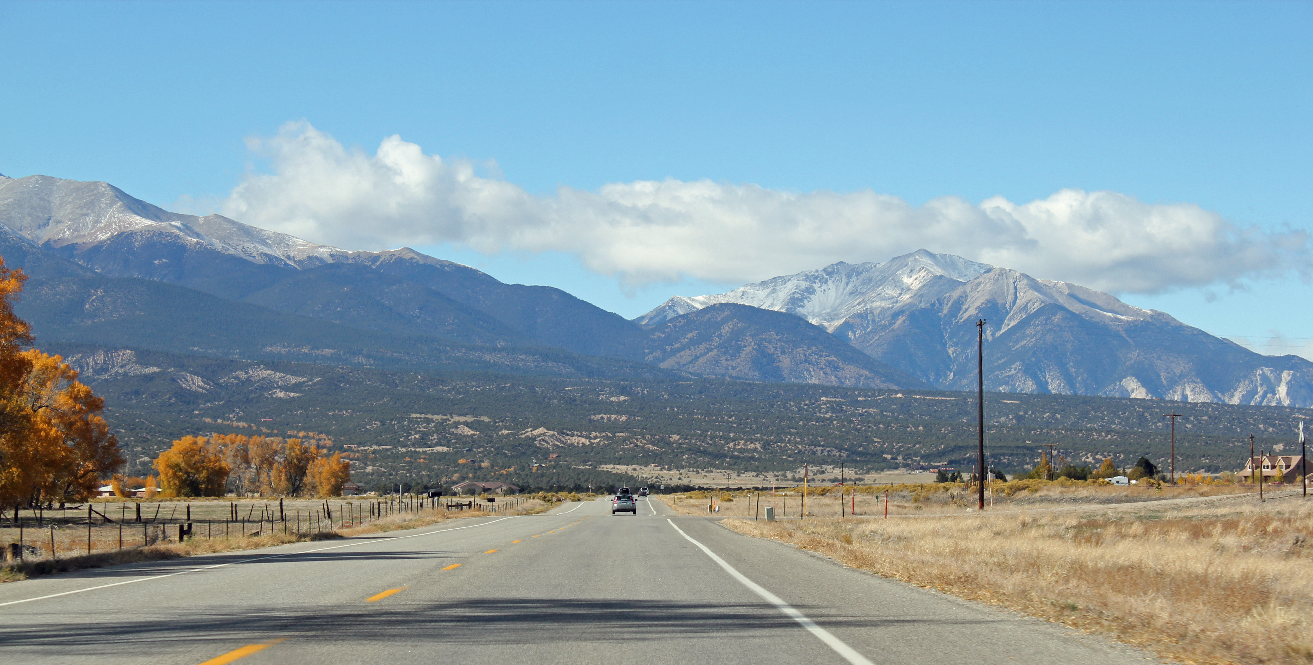 Colorado State Highway 291, in Chaffee County, Colorado, southeast of its terminus at Highway 285.